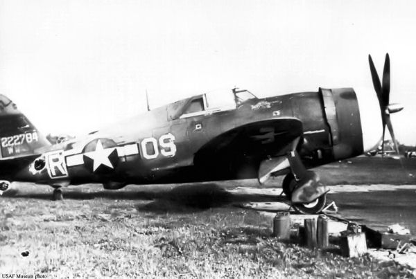 Republic P-47D-4-RA Thunderbolt Serial 42-22784 of the 357th Fighter Squadron, 355th Fighter Group, Steeple Morden Airfield, England (World War II).